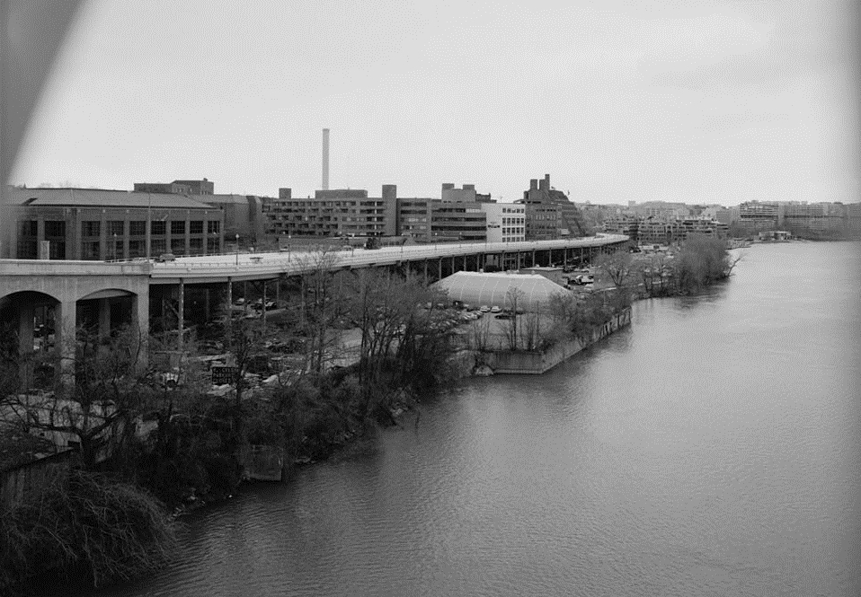 Looking southeast along the Potomac River at the Georgetown waterfront in Washington, D.C., in the United States. The Whitehurst Freeway can be seen at left.